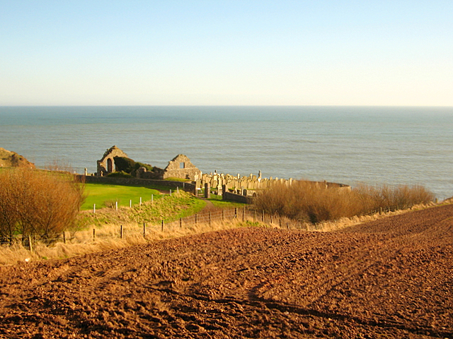 Cowie Chapel (St Mary's of the Storms), aka the chapel of St. Mary and St. Nathalan, Cowie, by Stonehaven, Aberdeenshire